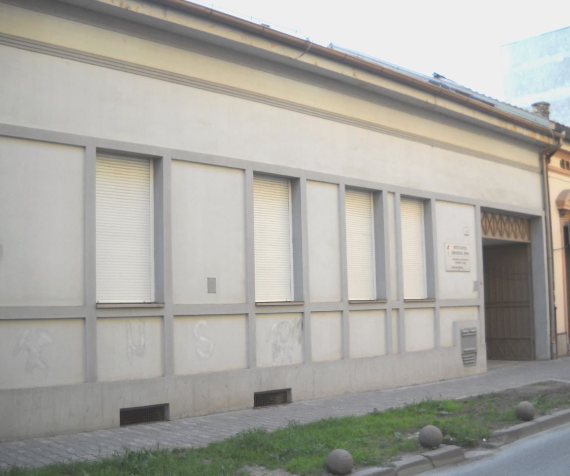 Protestant Evangelic Church (Pentecostal Church) in Novi Sad. Prayer meetings are performed in Serbian language.